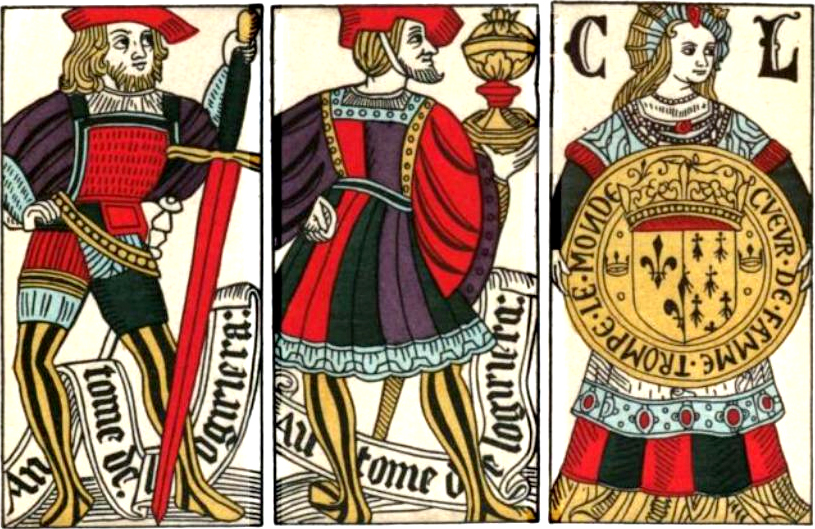 A Spanish Deck of Cards (1495-1518)